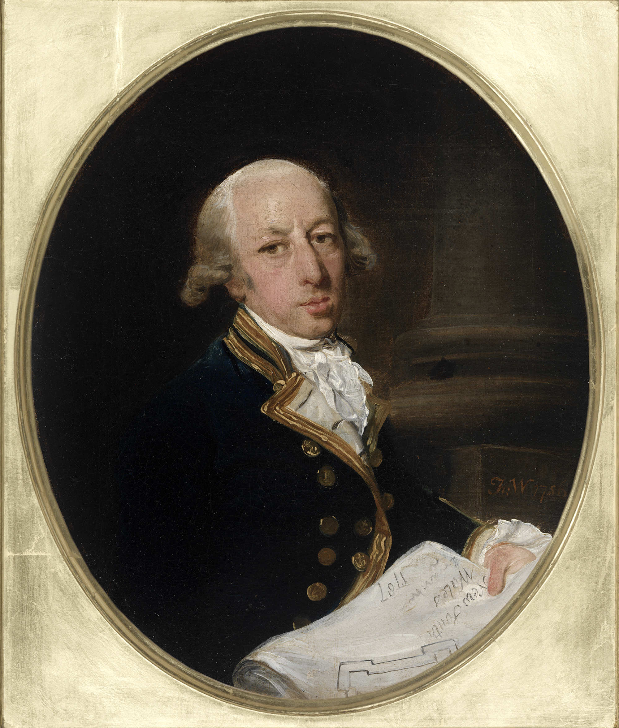 Captain Arthur Phillip, 1786, by Francis Wheatley, oil painting, State Library of New South Wales ML 124